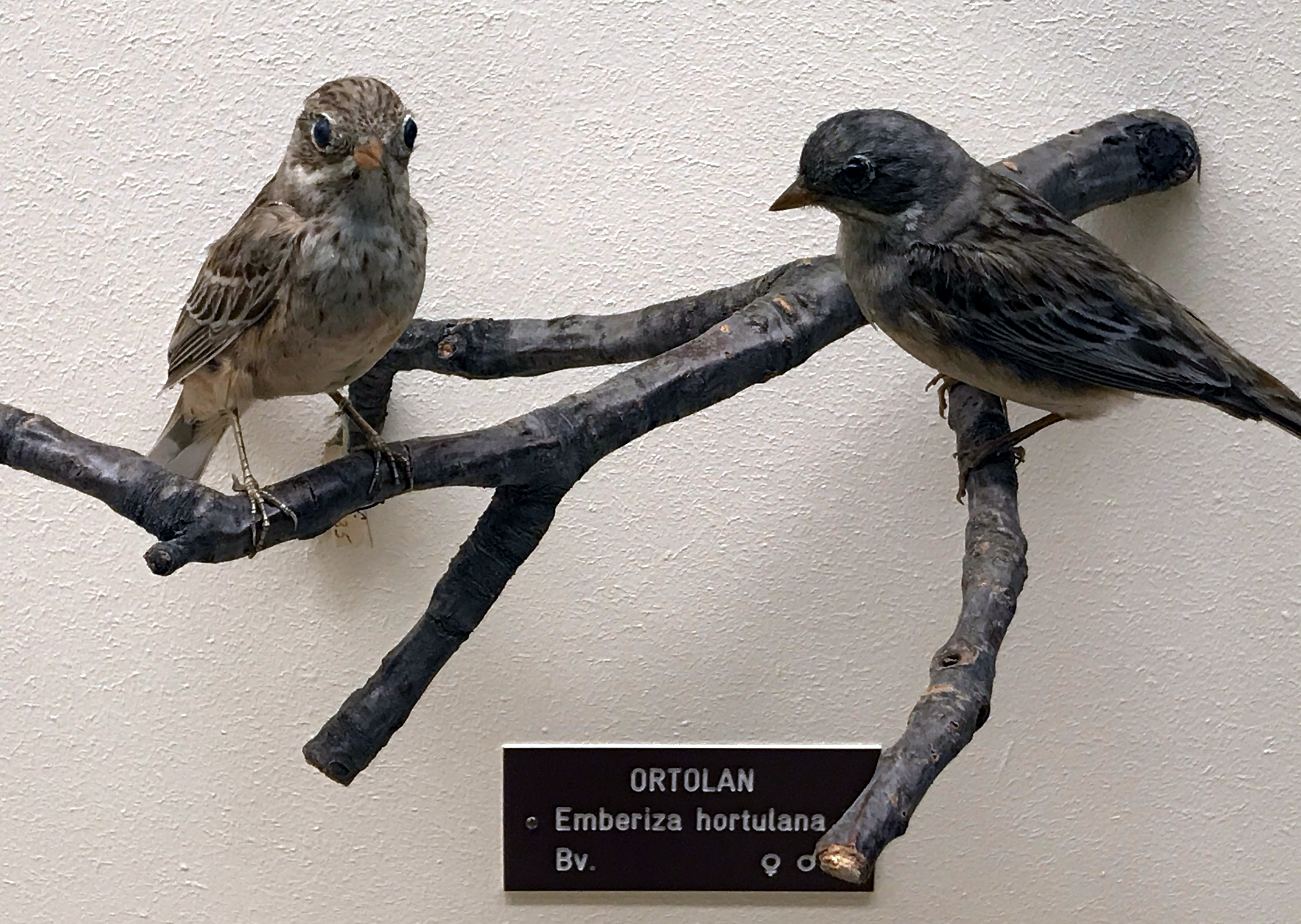 Ortolan bunting Bird-mount preparation of the Museum of Natural History in Vienna